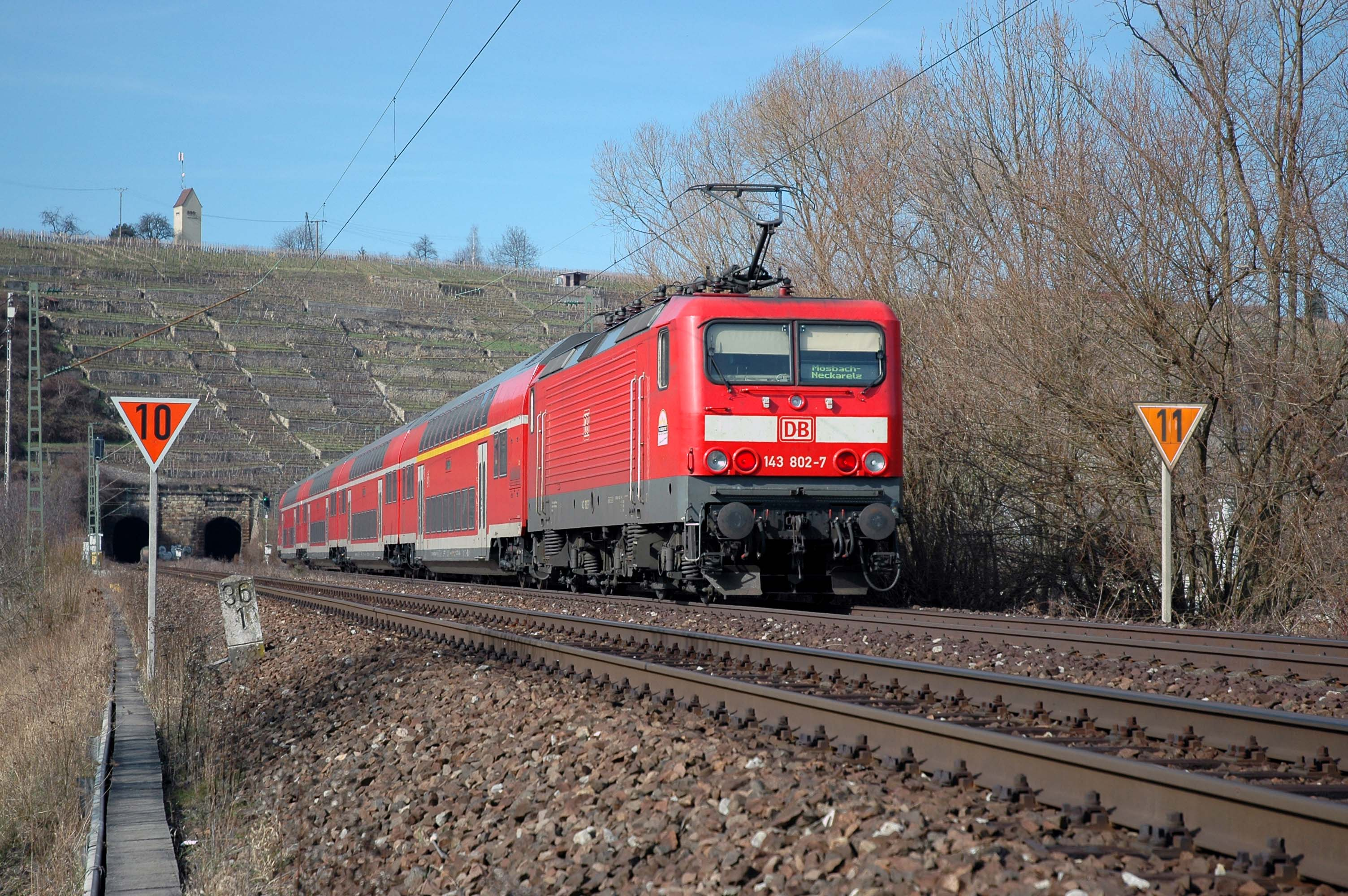 DB 143 802, near Kirchheim am Neckar with train RB 19176